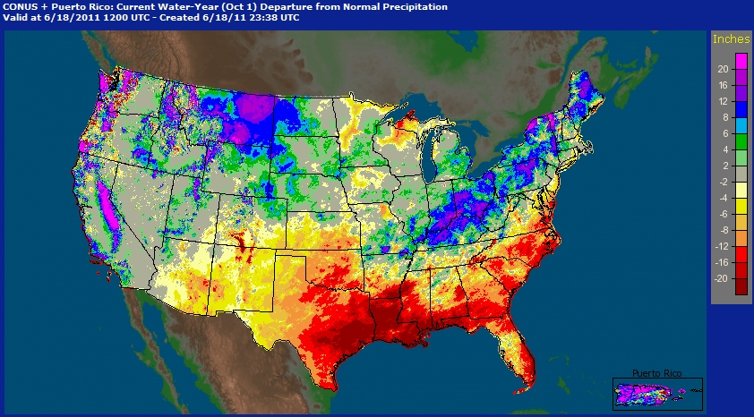 Map of Precipiation above or below normal as of June 18, 2011